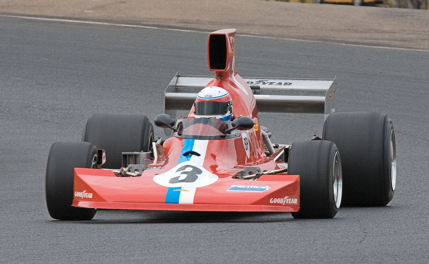 Tasman Revival 2008 - Eastern Creek, Australia IMG_3400